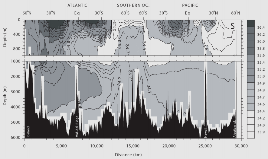 Own work